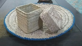 حصیربافی بلوچستان